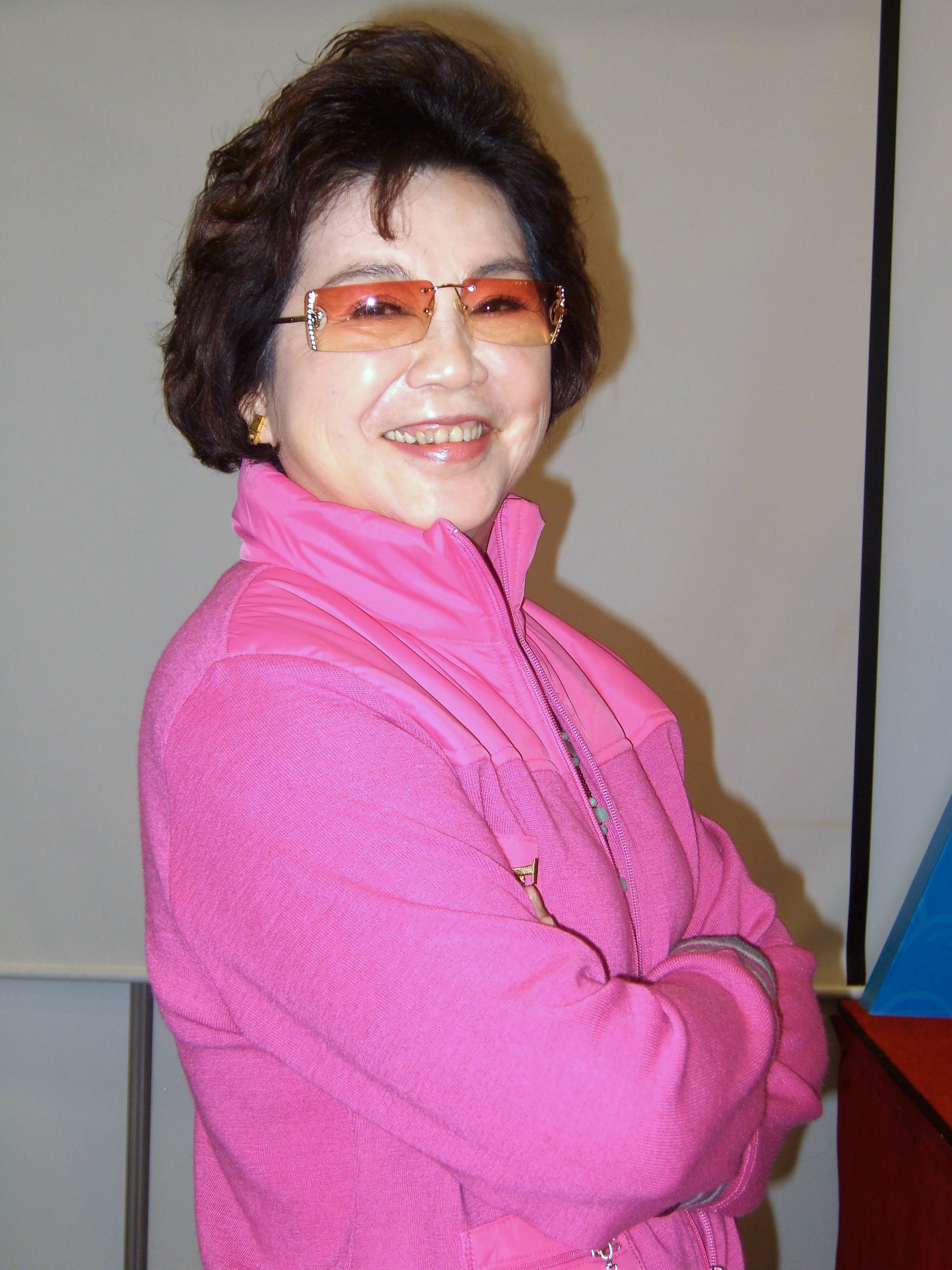 2008 Taipei International Book Exhibition - Activity Center 2: Wang Man-jiao, a senior actress of Taiwan, at DaAi TV "Picking Spikes" Debut.中文（台灣）: 出席2008年臺北國際書展的資深演員王滿嬌。